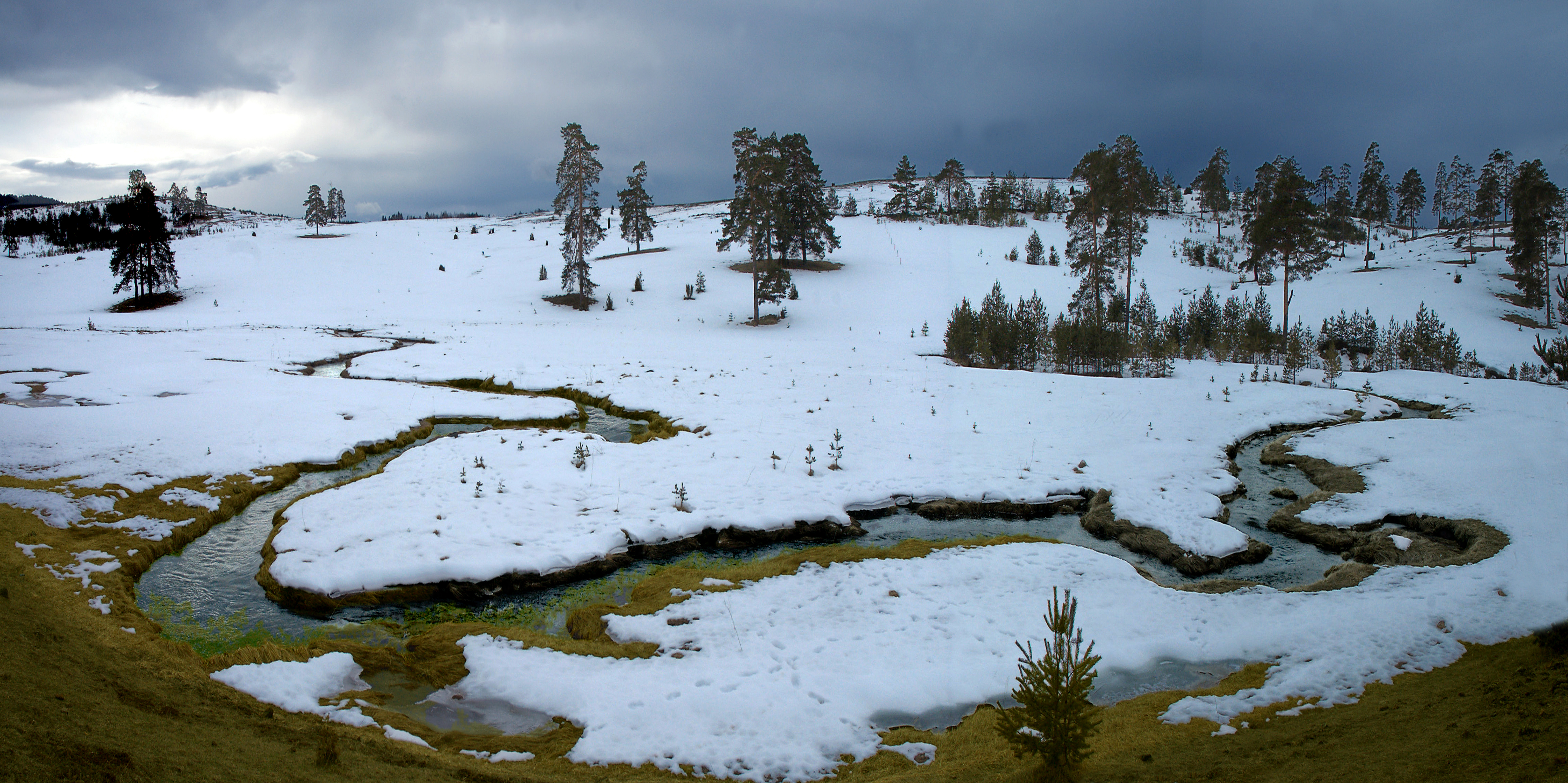 Ово је фотографија заштићеног природног добра у Србији под шифром: ПП15This is a a photo of a natural area in Serbia with ID: ПП15